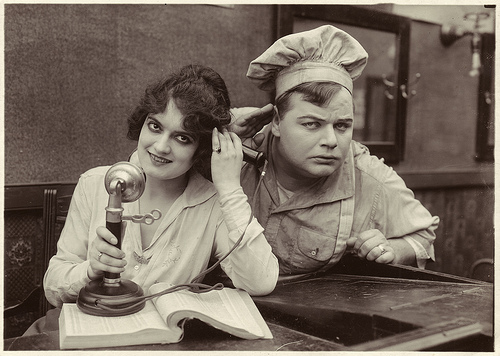 Still from the American film The Waiters' Ball (1916) with Corinne Parquet and Roscoe Arbuckle.